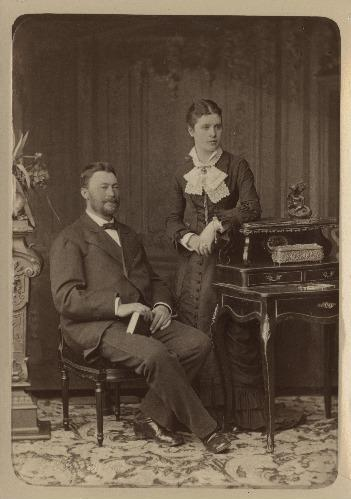 Gustav Eduard Woldemar Edler von Rennenkampff with his wife Juliane